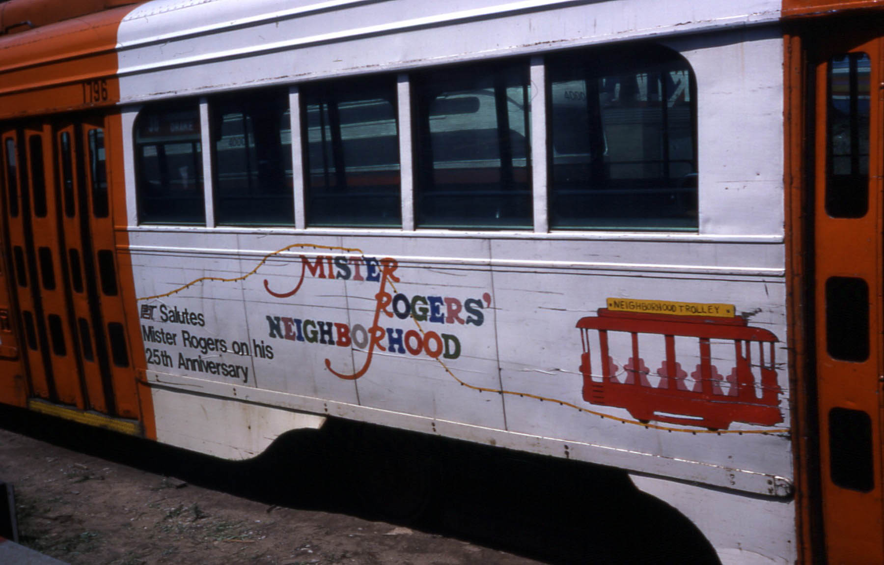 19820840 11 PAT PCC Mr. Rogers' Neighborhood